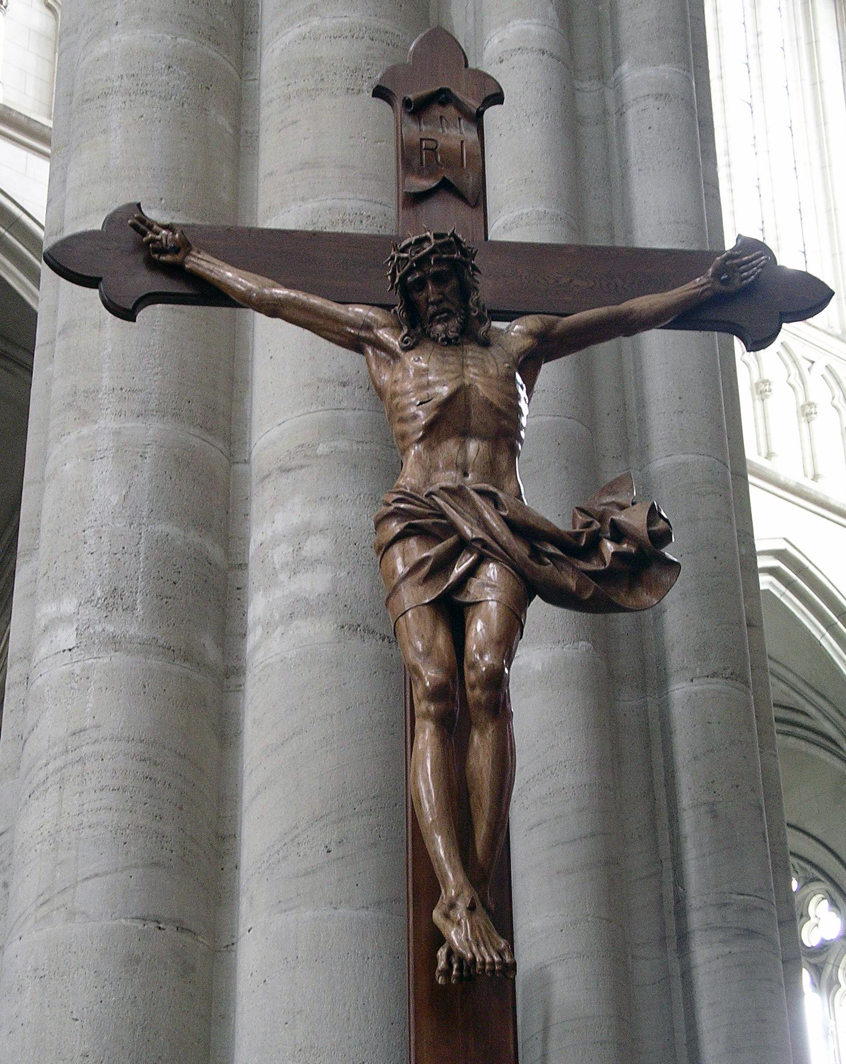 Jesus Christ (Cristo Crucificado) in the Cathedral of La Plata, Catedral de la Plata, carved by Leo Moroder.